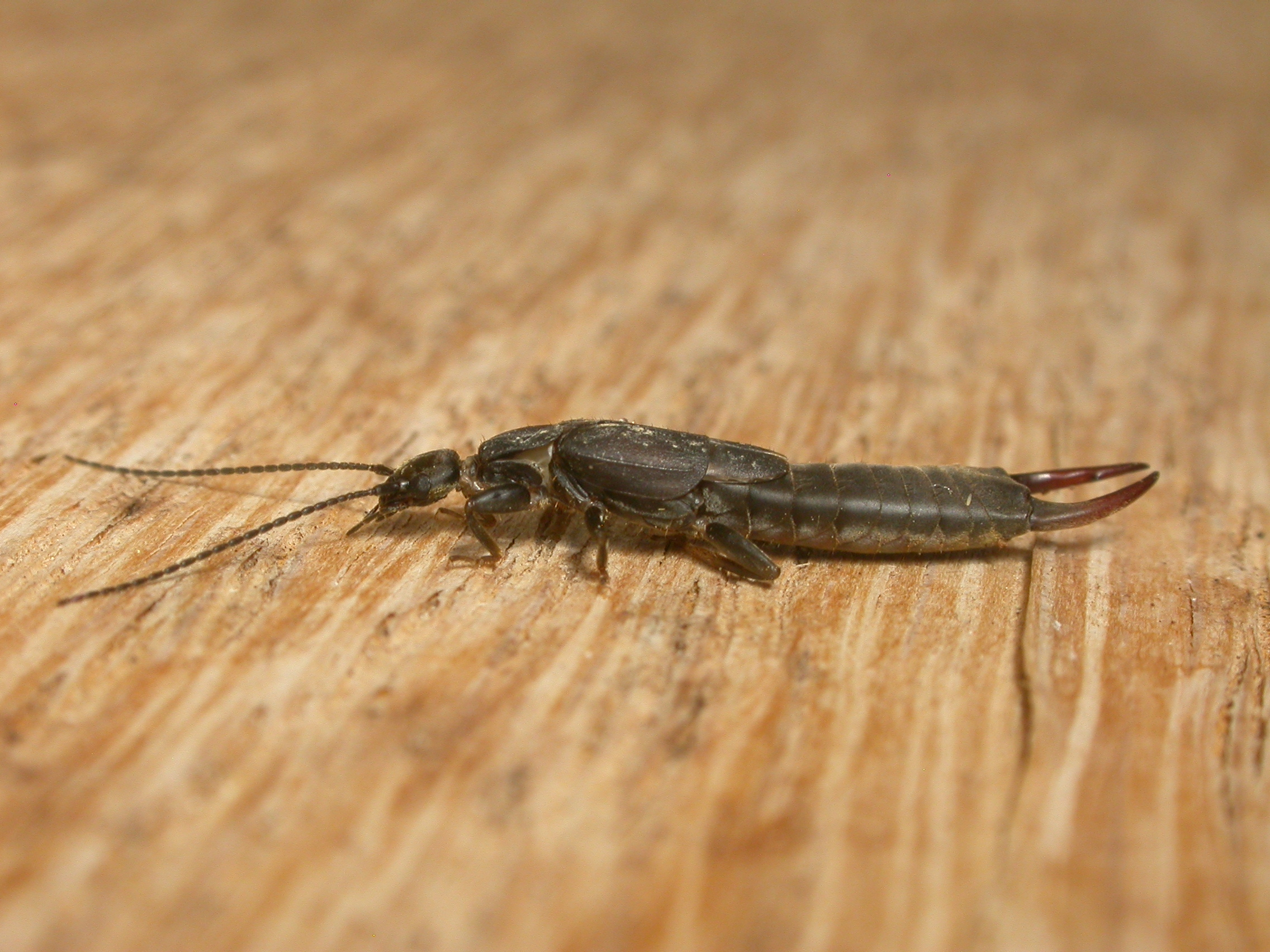 Nala lividipes male (Dufour), to MV light, Aranda, ACT, 20/21 March 2010